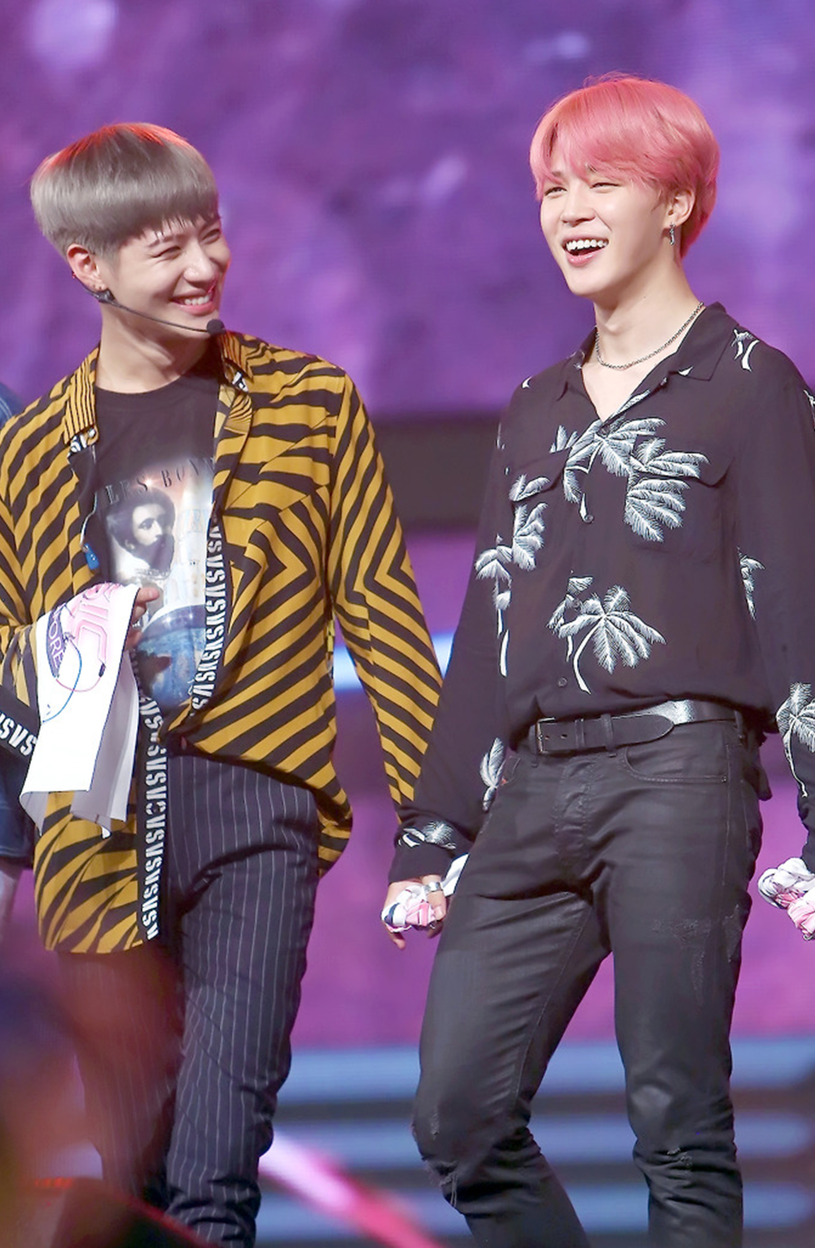 Lee Tae-min and Park Ji-min at Music Bank in Singapore on August 4, 2017.